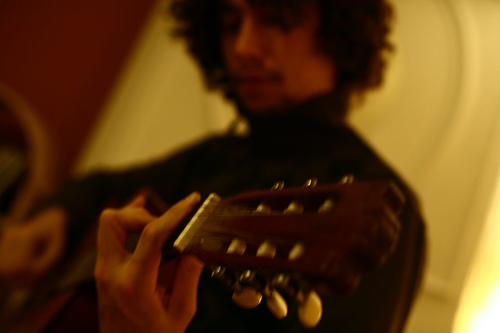 My friend Alessandro playing the acoustic guitar